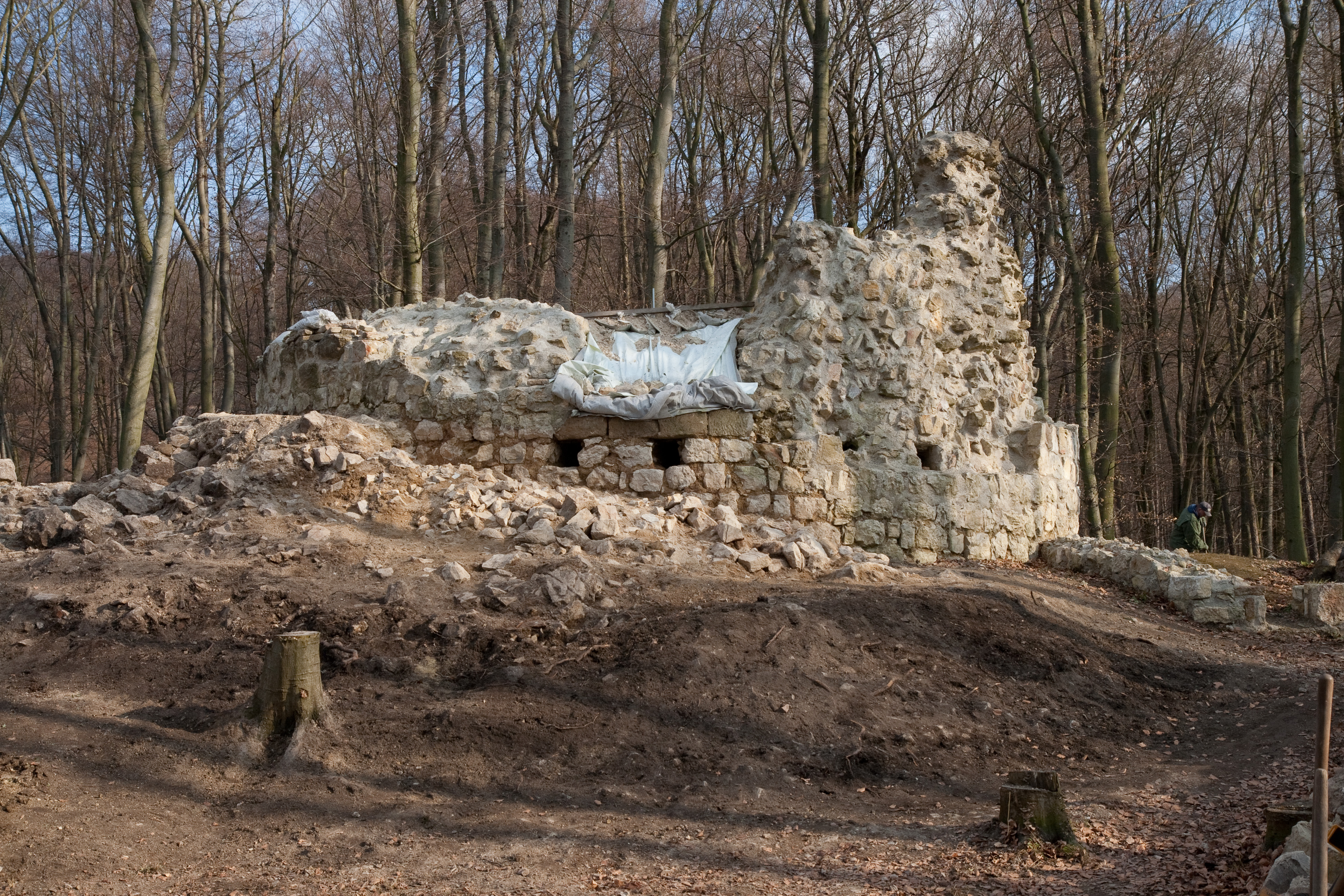 Ruin of the castle keep after the archaeological excavation in March 2013, seen from northwest.